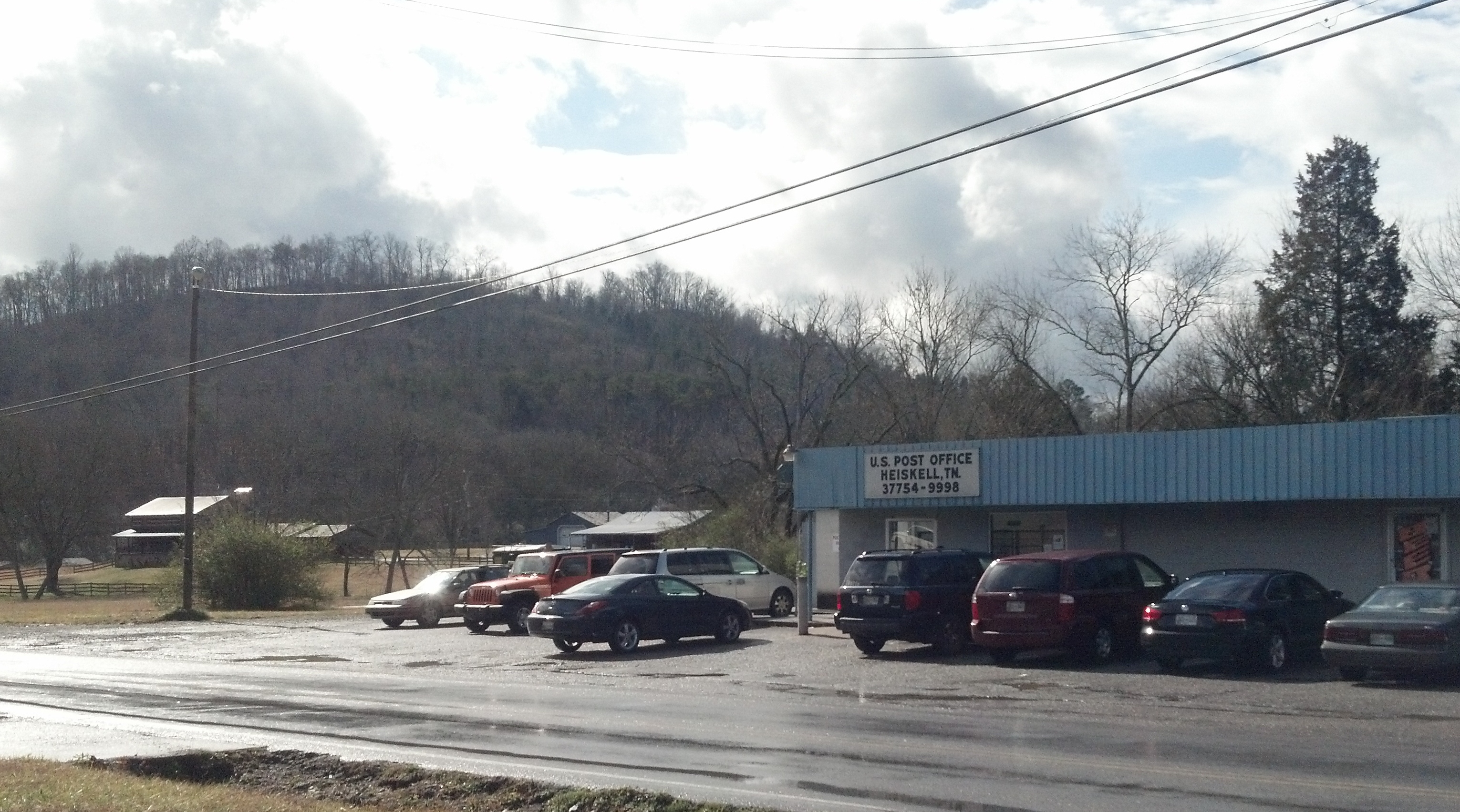 Heiskell, Tennessee, post office, with farm in background.